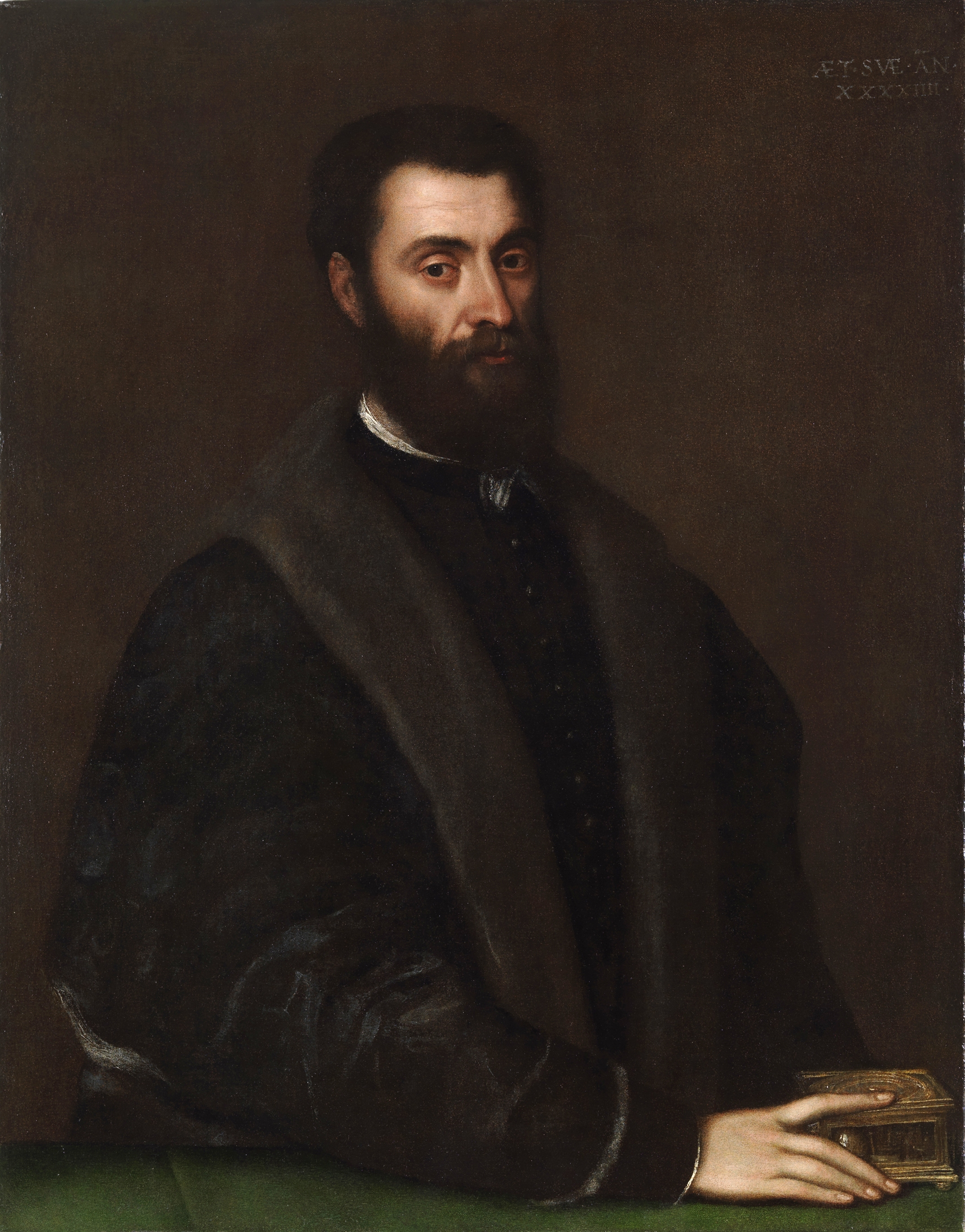 Tiziano Vecellio, Portrait of Sperone Speroni, 1544, Treviso Museo Civico Luigi Baldin